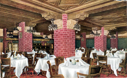 Historical La Salle Hotel in Chicago. Part of a promotional card set by the hotel which according to [1] is dated to c.1915.(being part of the set to which the Donatello Fountain card belongs to on that page).